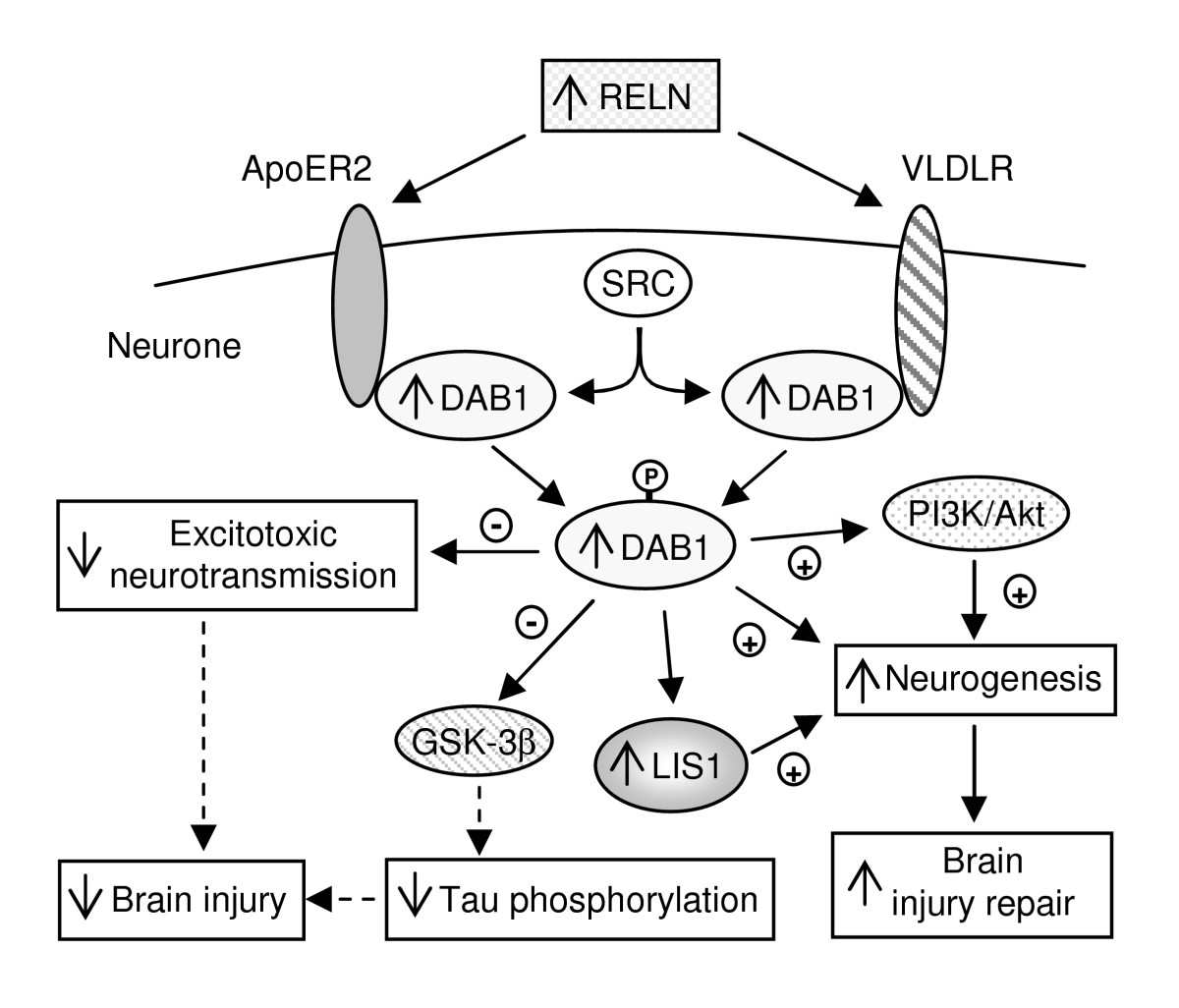 Schematic diagram showing the possible effects of the reelin pathway in protection from CM. Reelin (RELN) is an extracellular matrix serine protease expressed in some neurons, such as GABAergic interneurons, which inhibit excitotoxic neurotransmission [45]. RELN that is secreted into the extracellular space acts by paracrine and autocrine mechanisms. RELN interacts with very low-density lipoprotein receptors (VLDLR) and apolipoprotein E type 2 receptors (ApoER2) leading to tyrosine phosphorylation of the adaptor protein Disabled-1 (DAB1) by the SRC family kinases (SRC) [42]. DAB1 activation, in turn, activates PI3K/Akt signalling, which has been implicated in neuronal migration during development and adulthood. In addition, phosphorylated DAB1 interacts with LIS1, a protein encoded by Pafah1b1, which associates with microtubules and modulates neuronal migration [46]. LIS1 may be required for regulating crucial steps of reelin-dependent neuronal positioning. In parallel, phosphorylated DAB1 inhibits glycogen synthase kinase 3β (GSK3β), a kinase known to phosphorylate Tau protein at multiple sites. Therefore, the activation of RELN pathway diminishes the level of hyperphosphorylated Tau protein, which is a biomarker of brain injury. In particular, hyperphosphorylated Tau protein is a component of the neurofibrillary tangles involved in Alzheimer's disease. Reln, Dab1 and Pafah1b1 were shown to be over-expressed in CM-R mice compared to CM-S mice. The activation of RELN signalling may inhibit excitotoxic neurotransmission and Tau phosphorylation, and may activate neurogenesis in CM-R mice. This may lead to diminished brain injury and to increased brain injury repair. Solid arrows represent influences on the activity of proteins or physiological mechanisms. Dashed arrows represent impaired effects on the activity of proteins or physiological mechanisms. Negative signs indicate inhibition, and positive signs indicate activation. Delahaye et al. BMC Genomics 2007 8:452